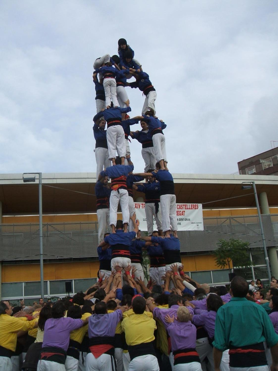 5de7 by Castellers d'Esplugues in Sant Feliu de Llobregat